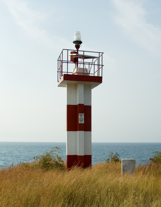 Farol da Lagua Azul, a lighthouse in the northern part of São Tomé and Príncipe near Azul Lagoon. According to a sign, it was established in 1997.